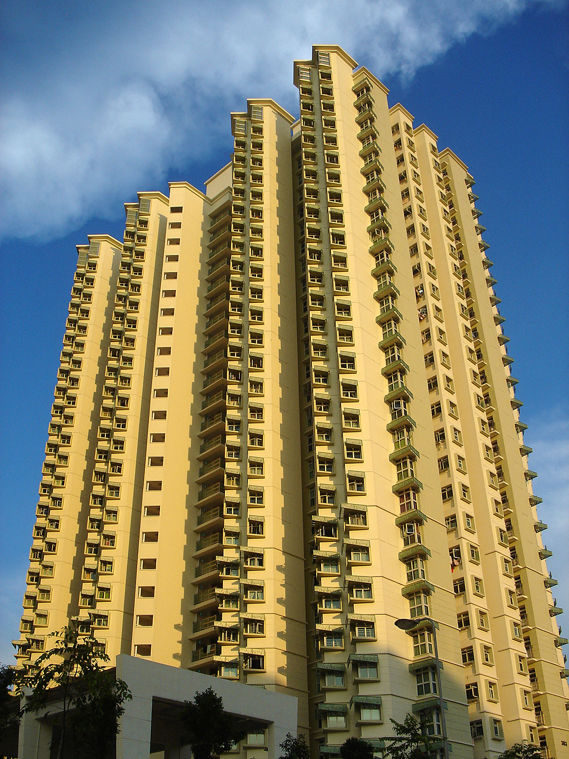 A block of Housing and Development Board flats along Bukit Batok West Avenue 5, Bukit Batok, Singapore.